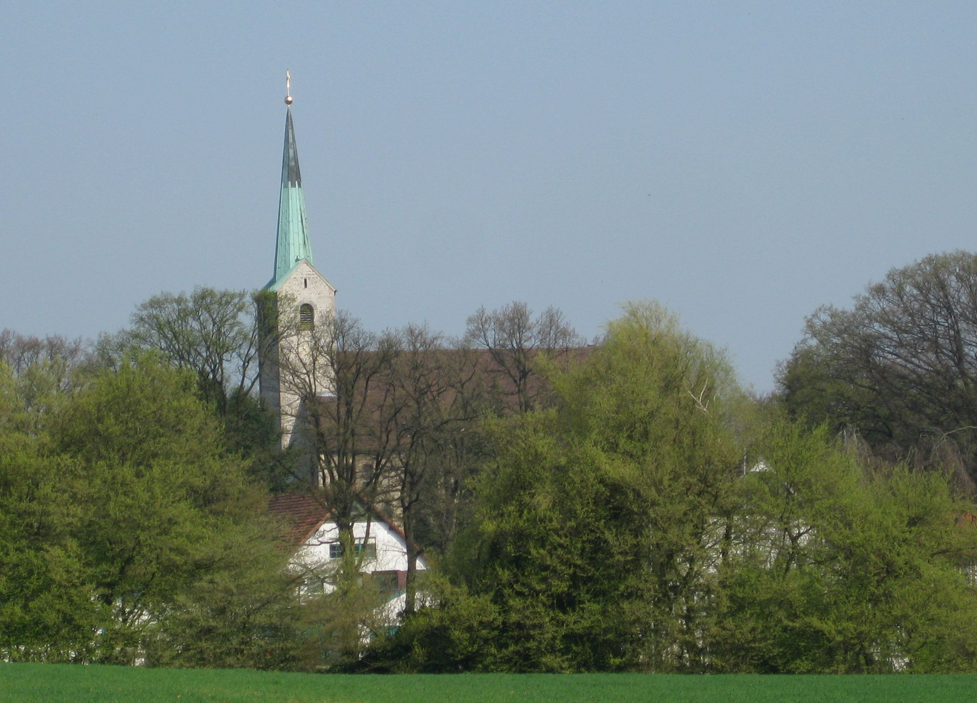 lutheran parish church Marienkirche in Bielefeld-Jöllenbeck